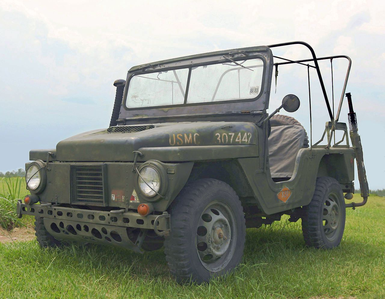 A U.S. Marine Corps M-422 Truck, 1/4 ton, 4×4 "Mighty Mite" jeep.